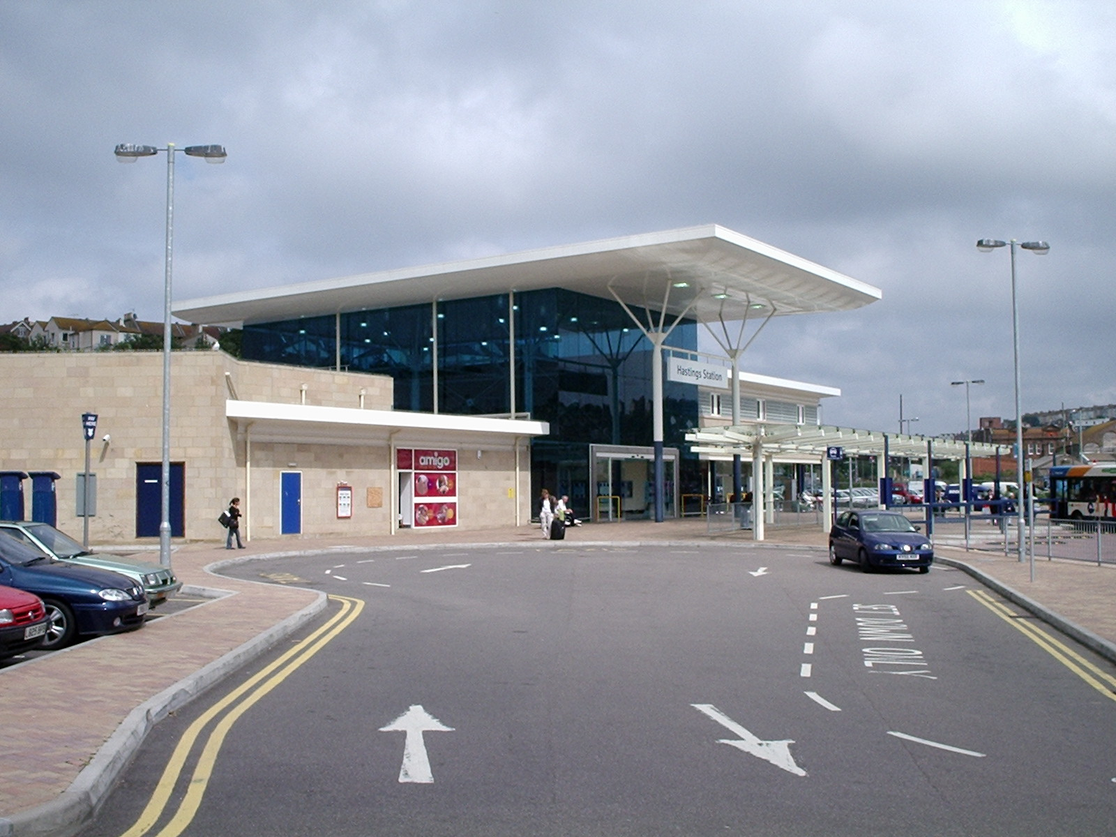 View of Hastings railway station and dropping off point. Hastings, Sussex, England. taken by contributor 2006